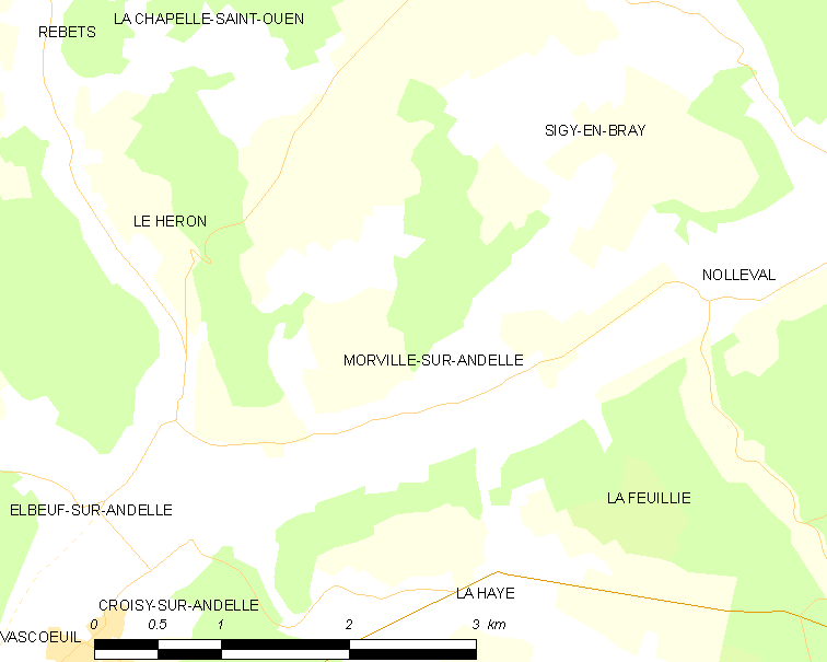 Map of French municipality Morville-sur-Andelle